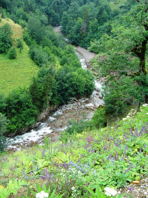 Dereli Stream is a branch of Aksu River that flows to Black Sea. The stream borns in Dereli district of Giresun province. With a travel on the motorway between Dereli and Şebinkarahisar towns of Giresun thousands of beauties like seen in this photo could be tasted.